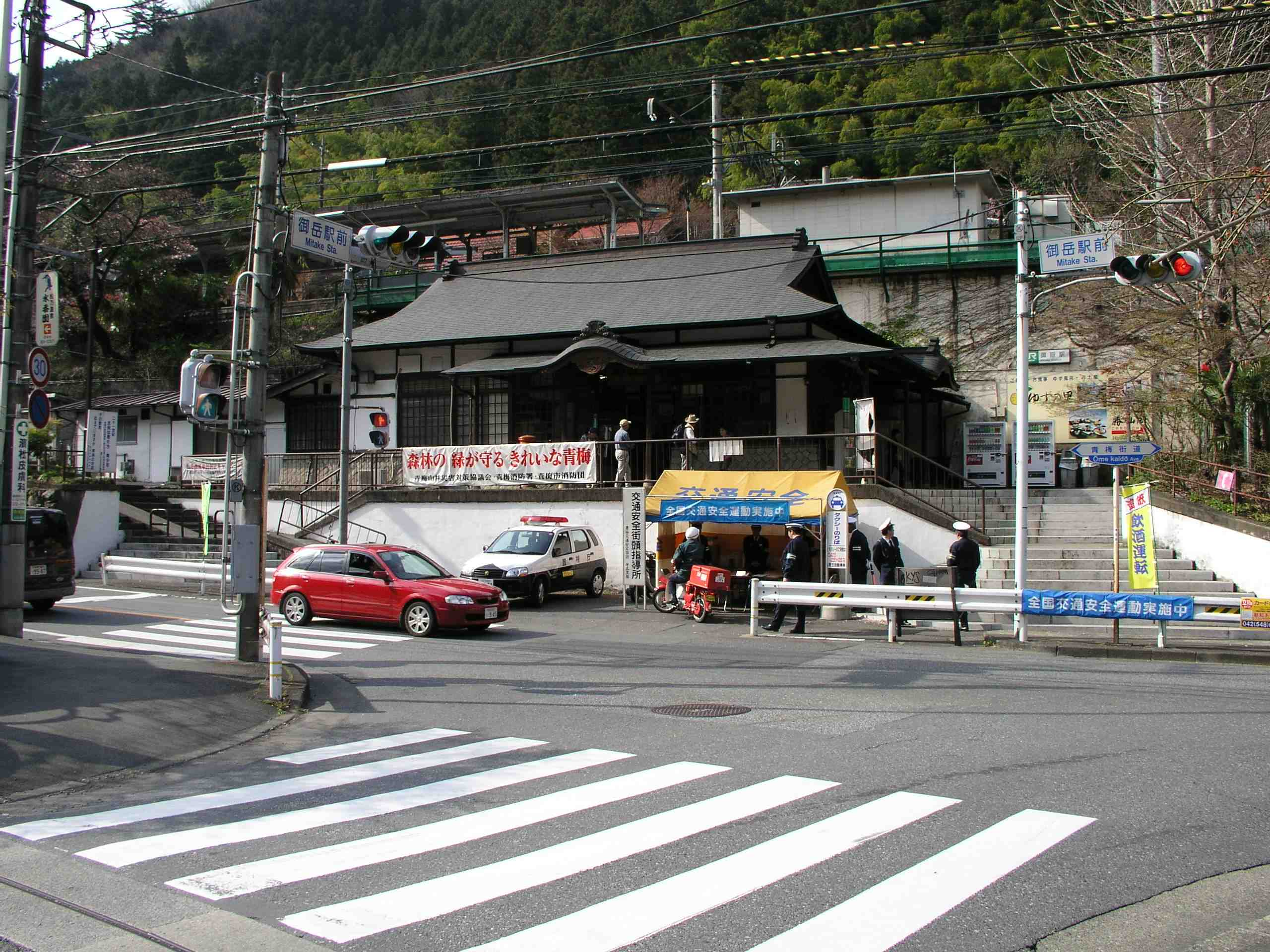 Mitake Station JR